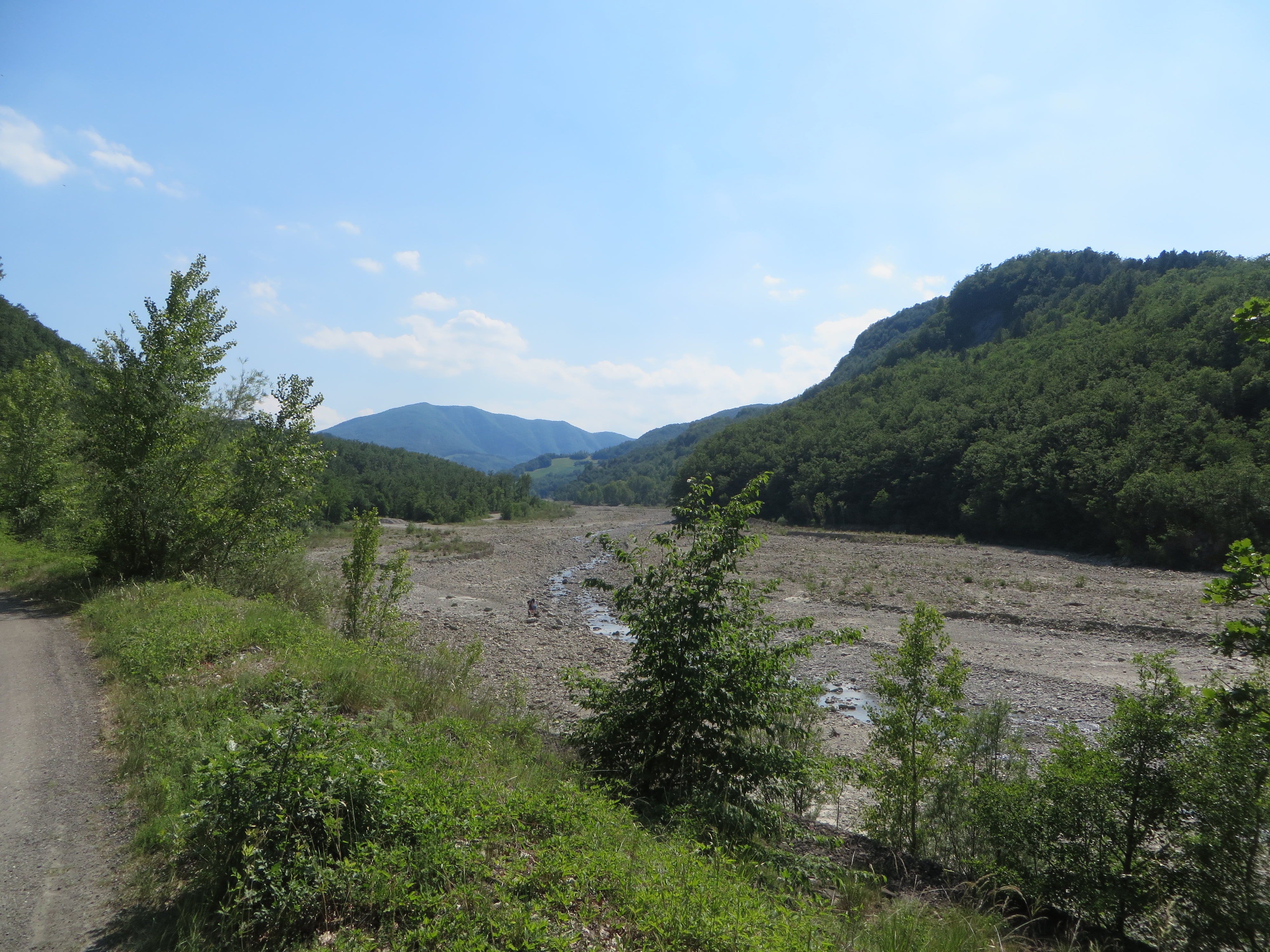 Pessola Creek